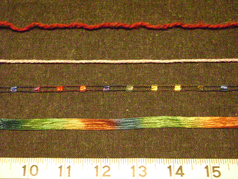 Some specialty yarns. From the bottom: rainbow ribbon, rainbow flag and braided lavender sparkly. The red yarn at the top is an ordinary hand-spun yarn for comparison. See also Image:Specialty_yarns_ribbon_flags_braid.png, which omits the normal yarn at the top.